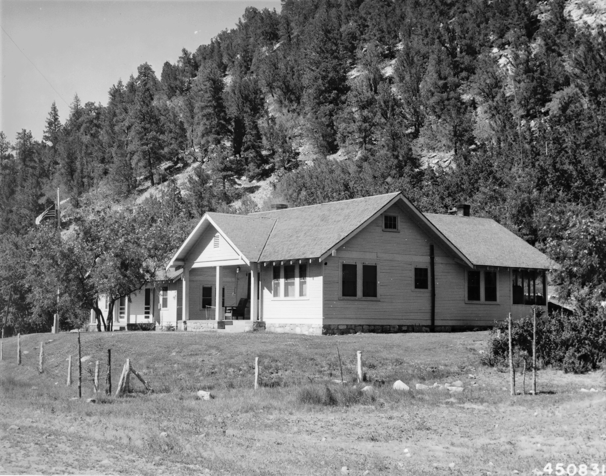 Big Springs Ranger Station. 1948 by E. L. Perry. Please give credit to: U.S. Forest Service, Southwestern Region, Kaibab National Forest.